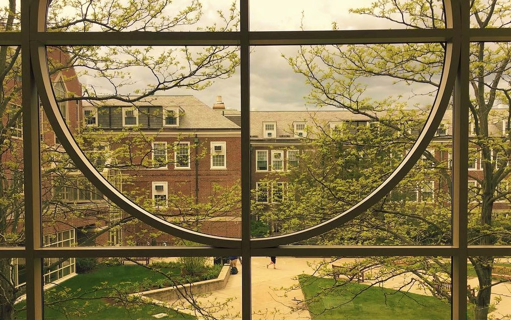 View of the Mone Courtyard on the campus of BC Law.